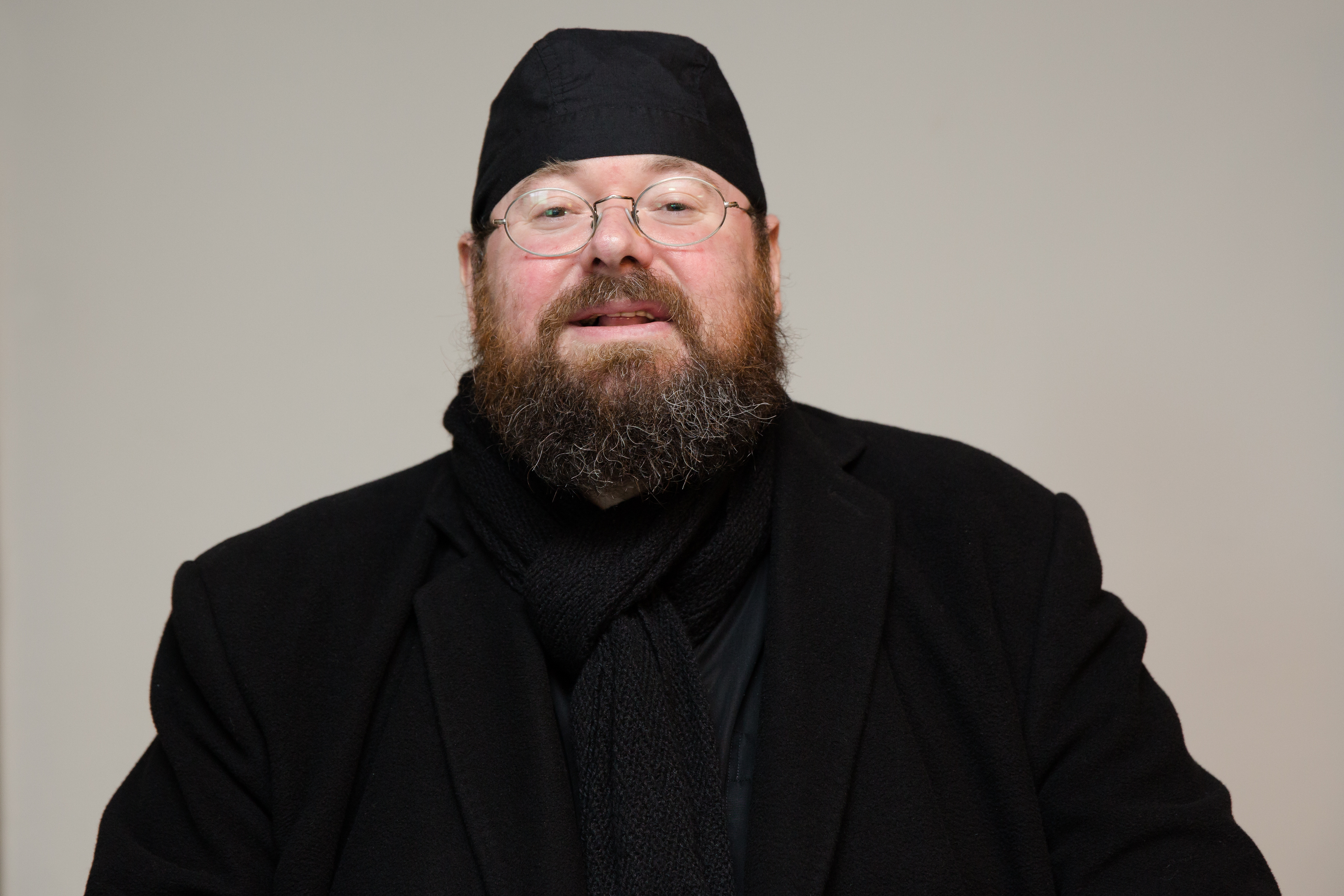 Günther Friesinger at the celebration of the 15th anniversary of Wikipedia at Museumsquartier in Vienna, Austria.